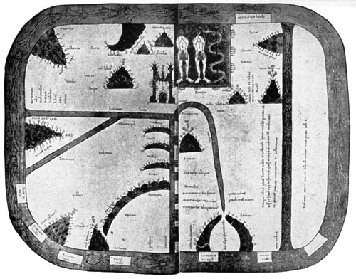 Spanish-Arabic map of 1109 (B. Mus., Add. mss., 11695). The original, gorgeously coloured, represents the crudest of Christian and Moslem notions of the world. Even more crude than in the Turin map and the Mappe-Monde of St. Sever, both of which offer some resemblances to this. The earth is represented as of quadrangular shape, surrounded by the ocean. At the E. is Paradise with the figures of the Temptation. A part of the S. is cut off by the Red Sea, which is straight (and coloured red), just as the straight Mediterranean, with its quadrangular islands, divides the N.W. quarter, or Europe, from the S.W. quarter, or Africa. The Ægean Sea joins the Mediterranean at a right angle, in the centre of the map. In the ocean, bordering the whole, are square islands, e.g., Tile (Thule), Britania, Scocia, Fu(o)rtunarum insula. The Turin map occurs in another copy of the same work—A Commentary on the Apocalypse. (